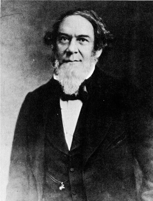 Alexander Dallas Bache (1806 - 1867), American scientist, U.S. Coast Guard official. Unknown photographer and date. Original photograph in possession of U.S. Navy.